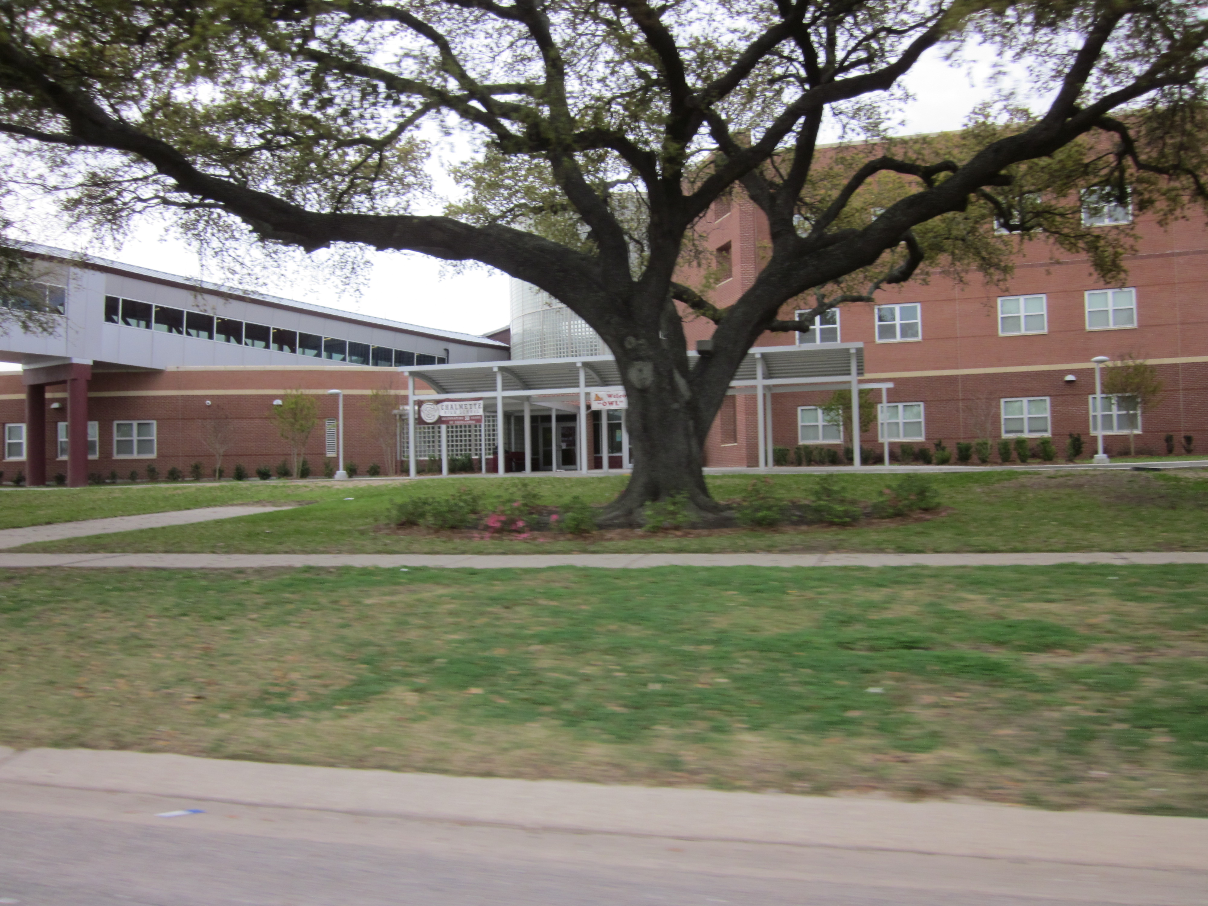 Chalmette, Louisiana. New high school building. Walkway connects buildings across Judge Perez Highway.